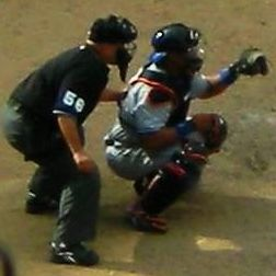 Jason Marquis pinch hits in the bottom of the 8th inning against the Mets at Wrigley Field, Tuesday, April 22, 2008.